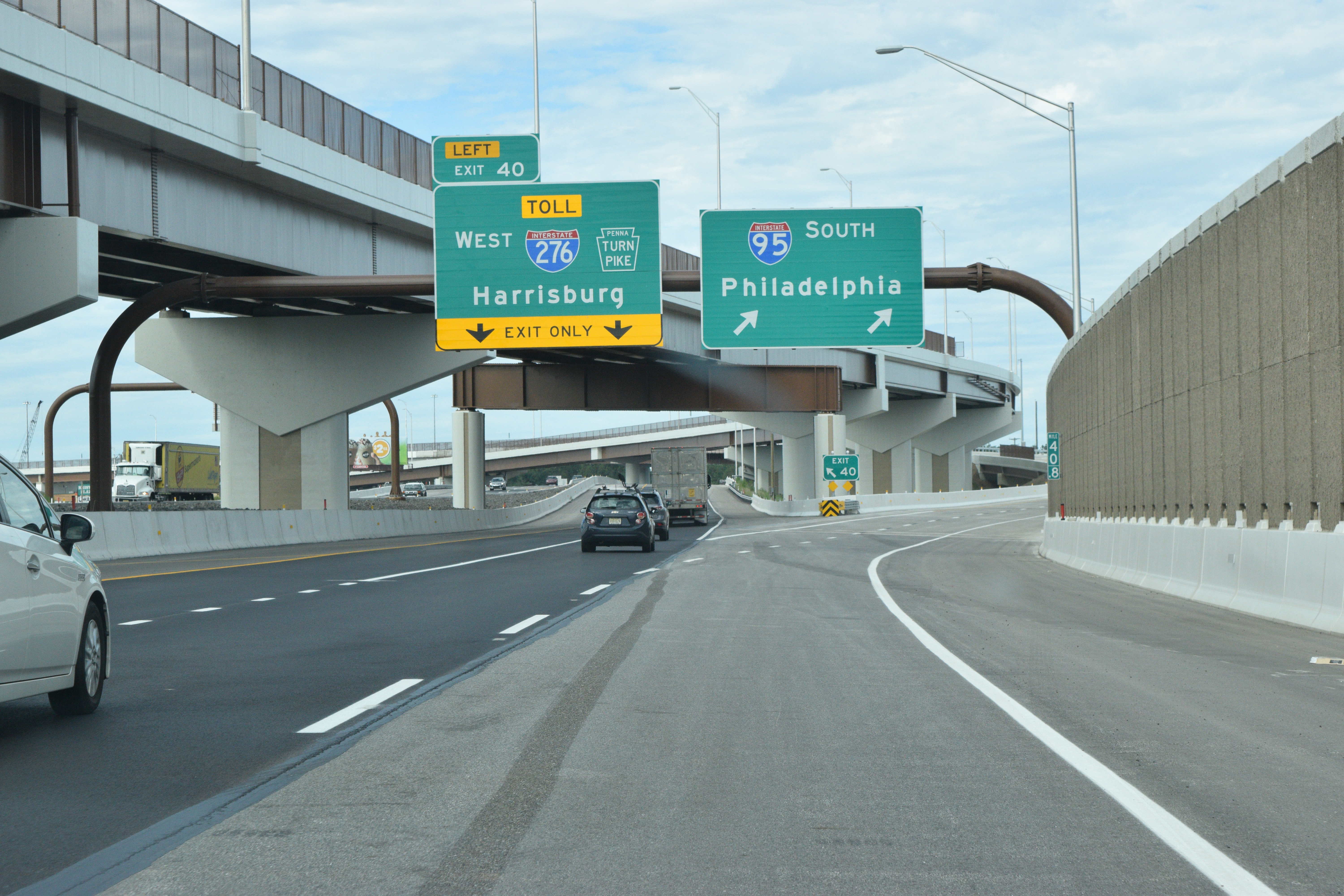 Southbound I-95 at left exit for I-276/PA Turnpike at 95-Turnpike interchange